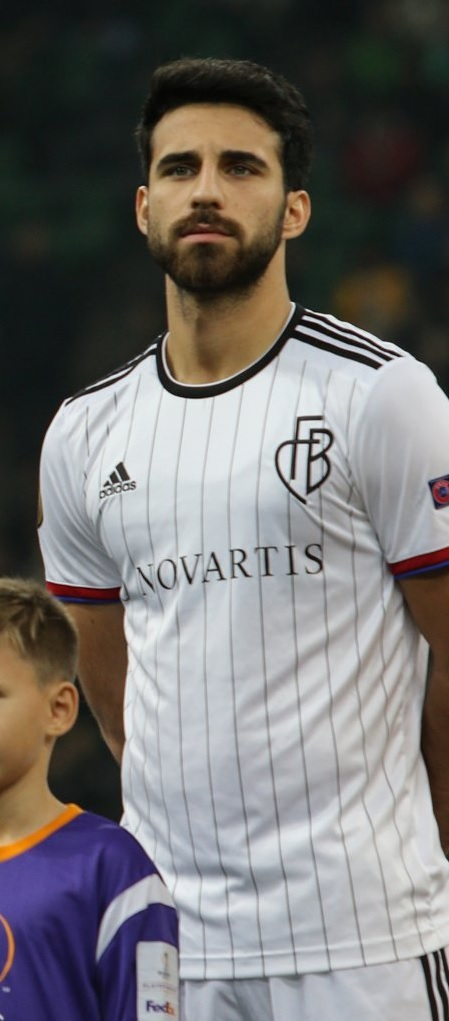 Eray Cömert with FC Basel before an Europa League game against FC Krasnodar.